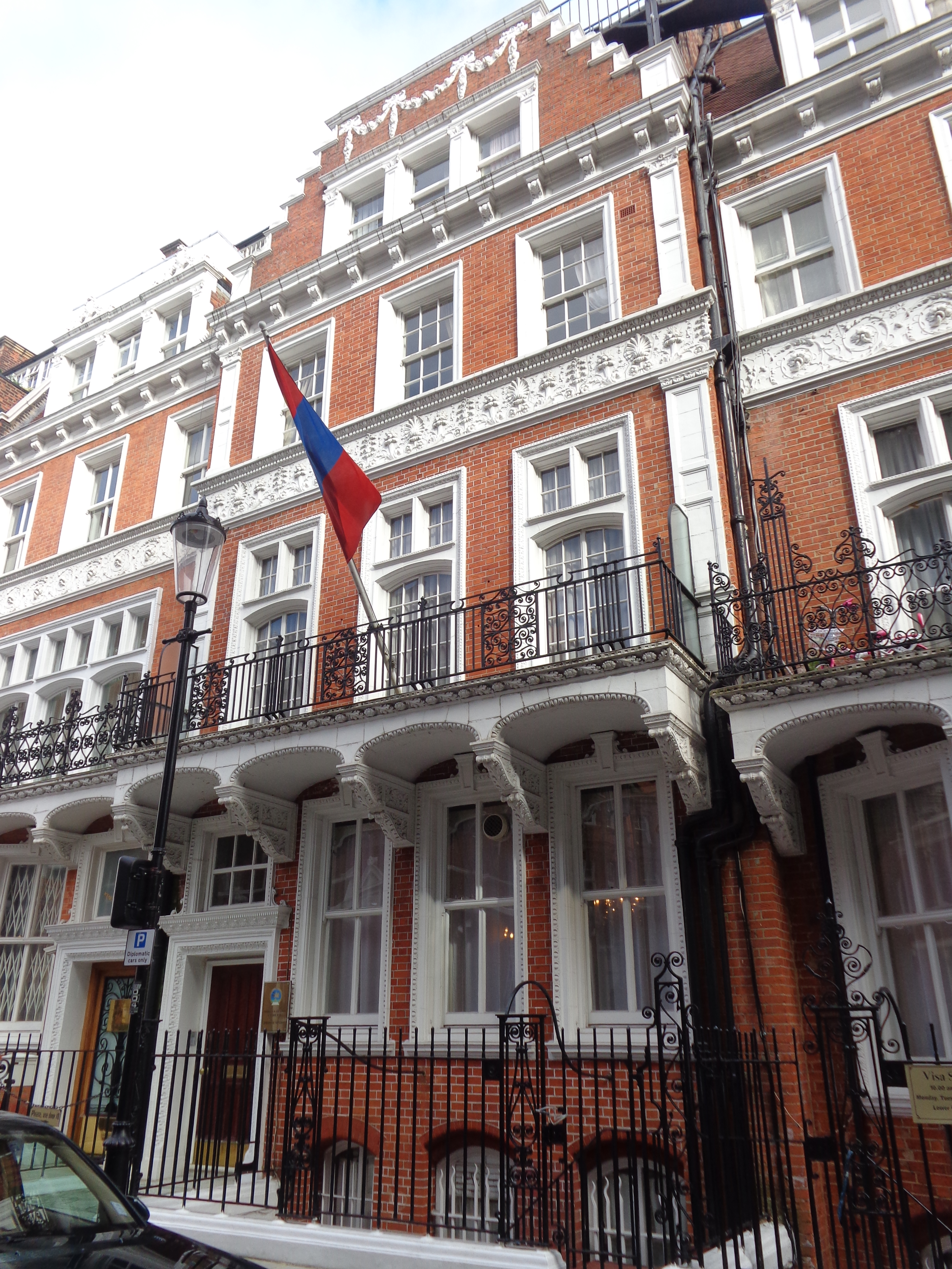 Embassy of Mongolia, Kensington Court, Royal Borough of Kensington and Chelsea, London. Taken on the afternoon of Thursday the 25th of September 2014.